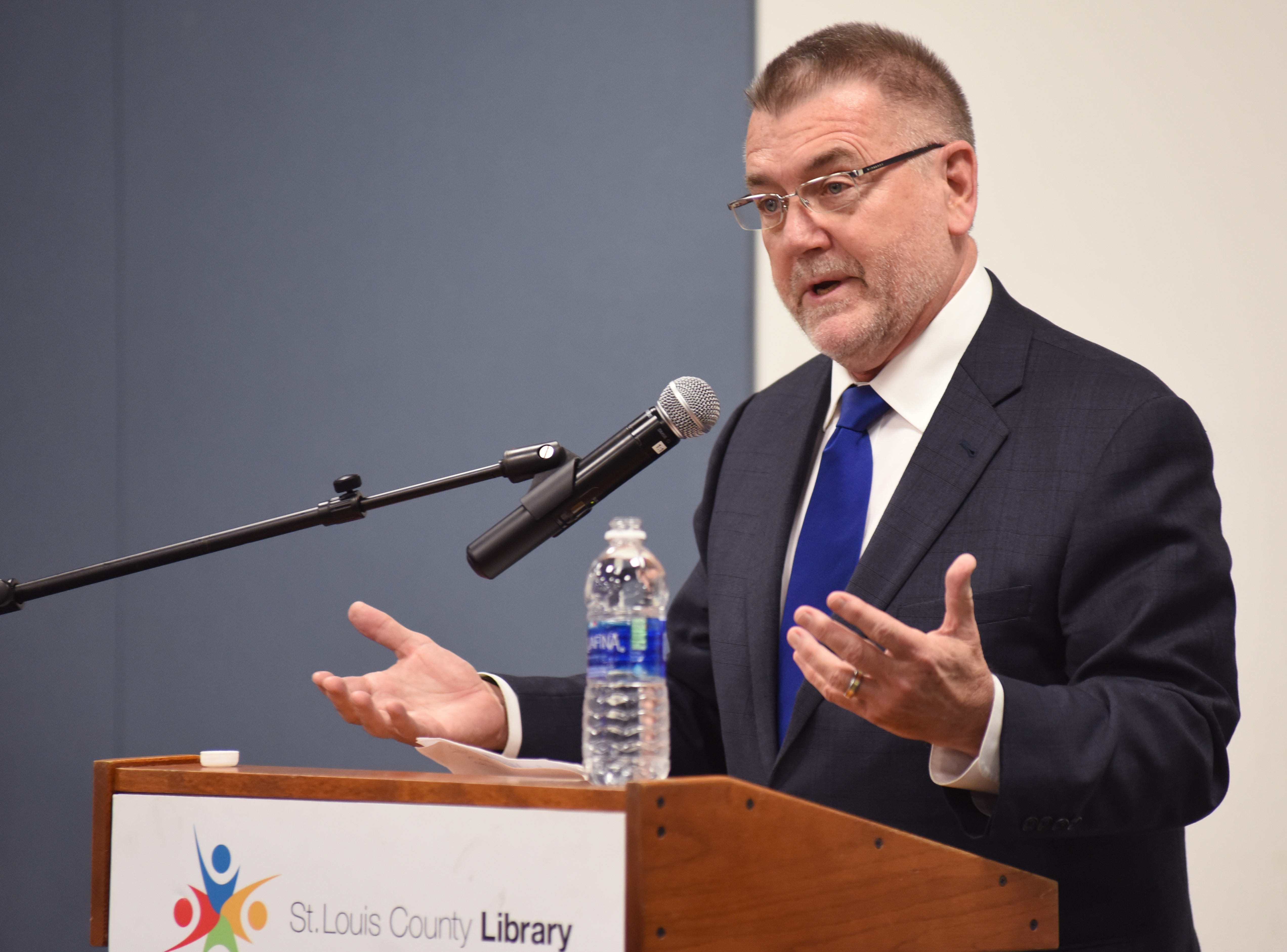 American historian Peter Hayes, photographed by Kara Hayes Smith for the St. Louis County Library